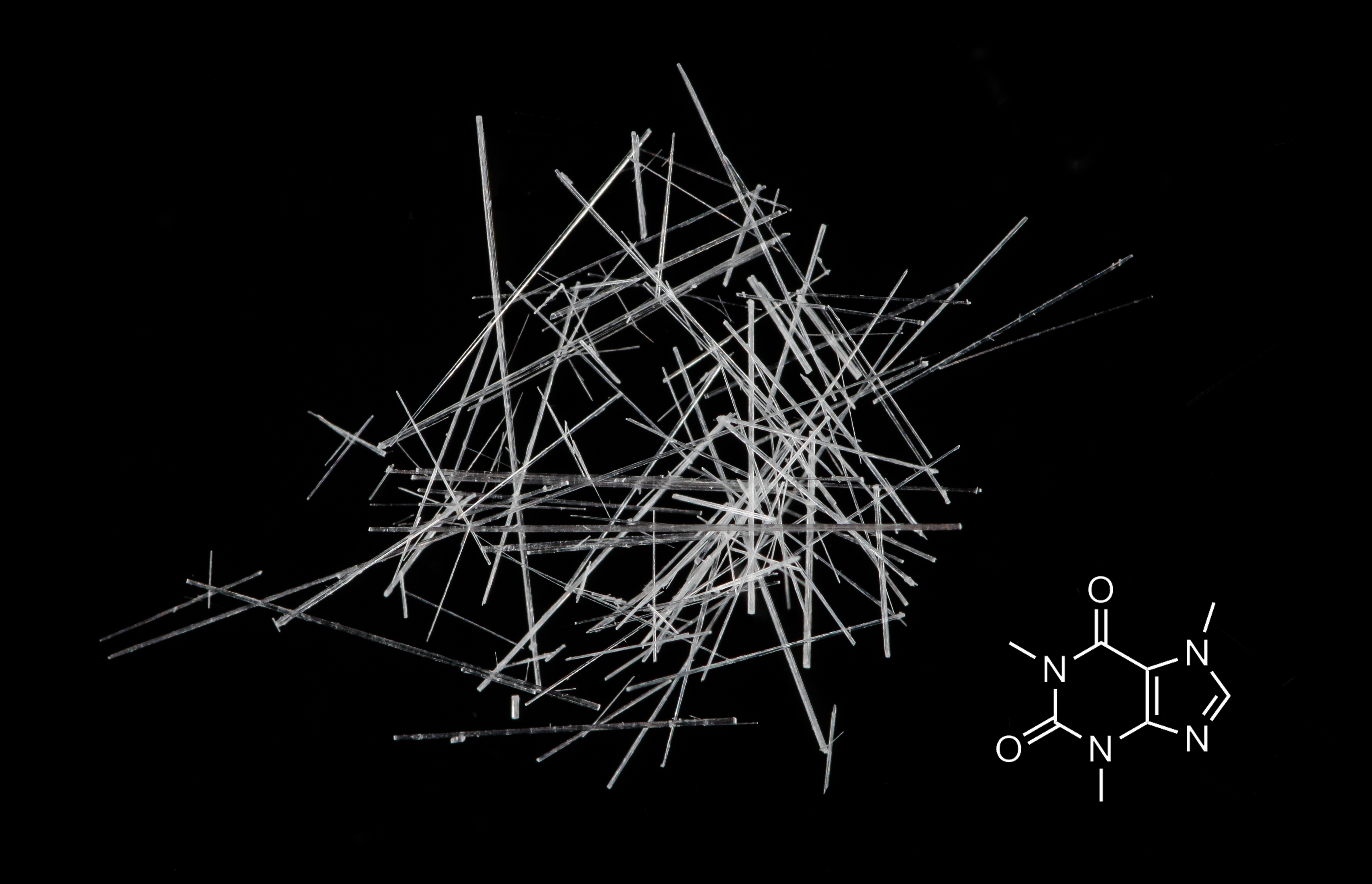 Caffeine after crystallization from Ethanol.